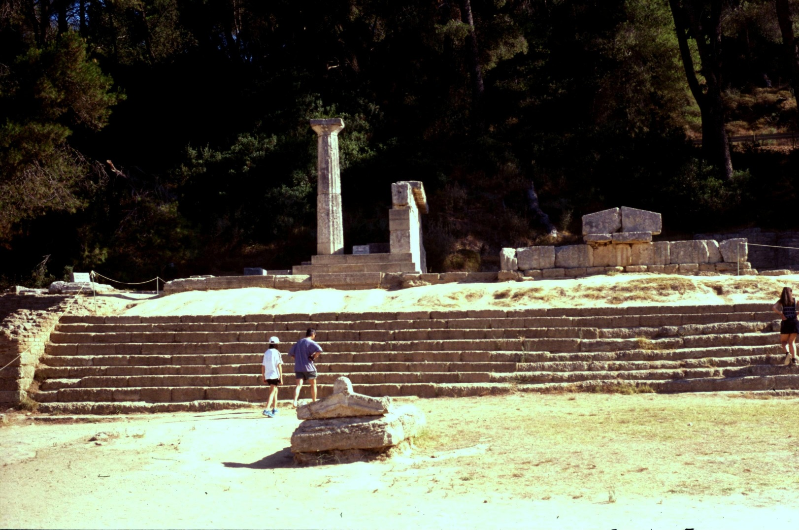 Grece Olympie Terrasse Tresors